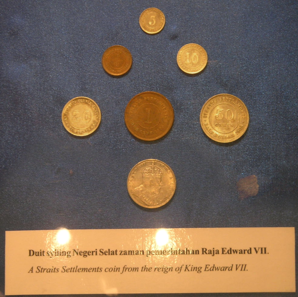 Straits Settlement coins from the reign of King Edward VII.